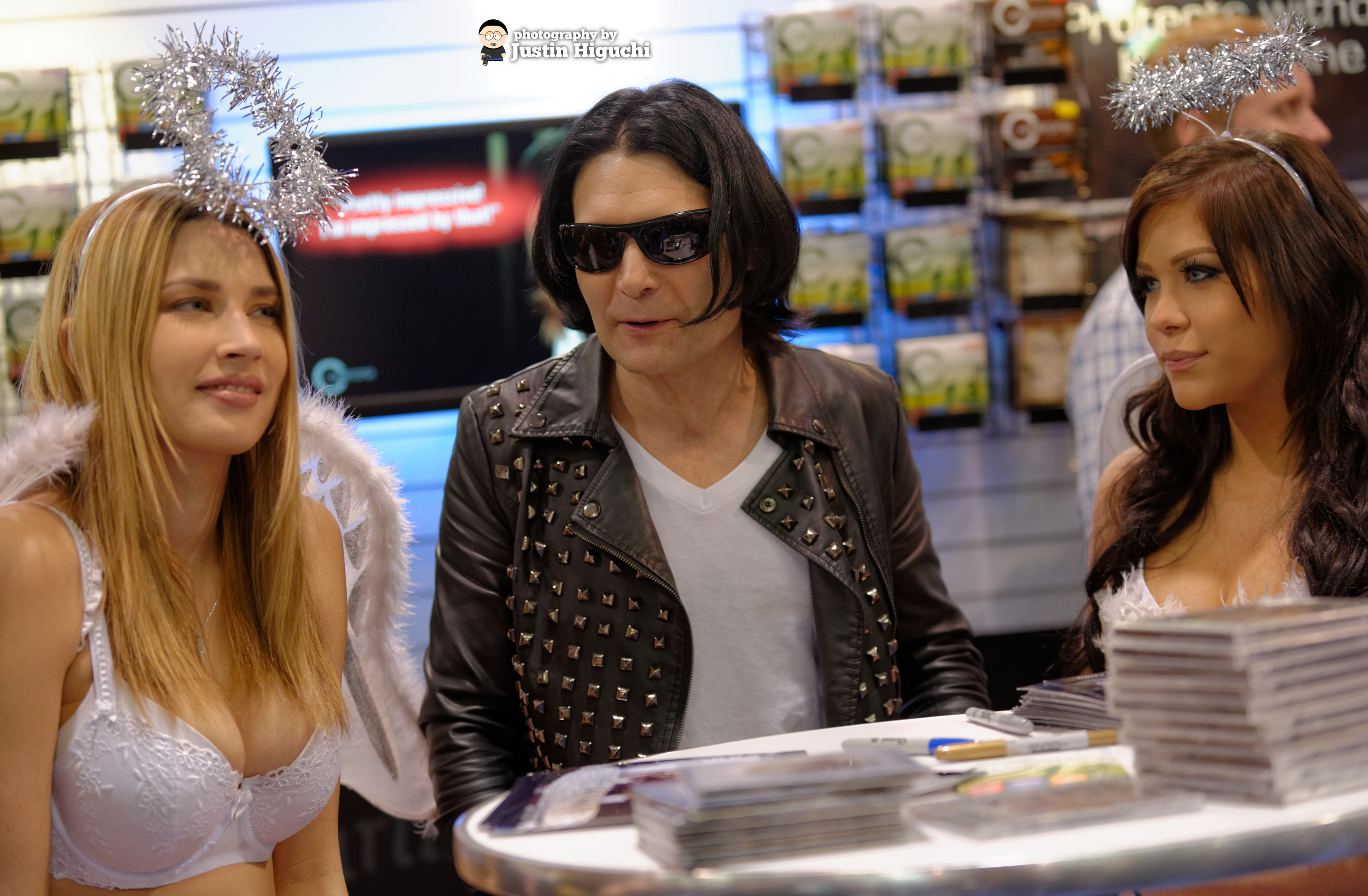 Corey Feldman signing at the Cleartone Strings Booth, at the Winter NAMM Show in Anaheim California on Thursday January 22nd, 2015.